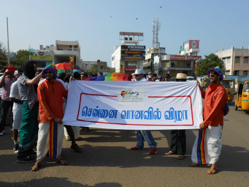 Picture from LGBTQ pride march held in Chennai in the year 2012